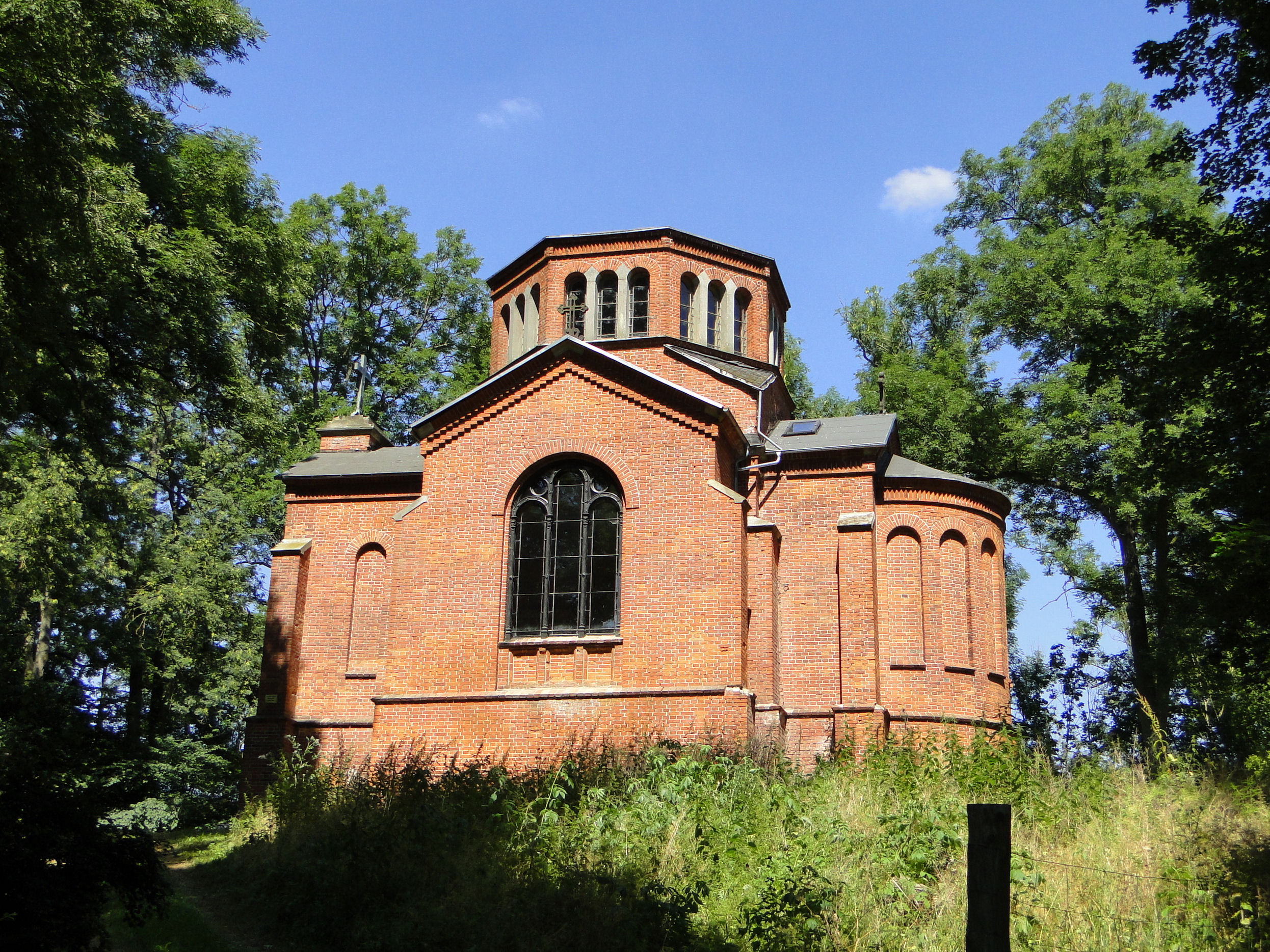 Former church at hill Burgberg in Wolde, district Demmin, Mecklenburg-Vorpommern, Germany